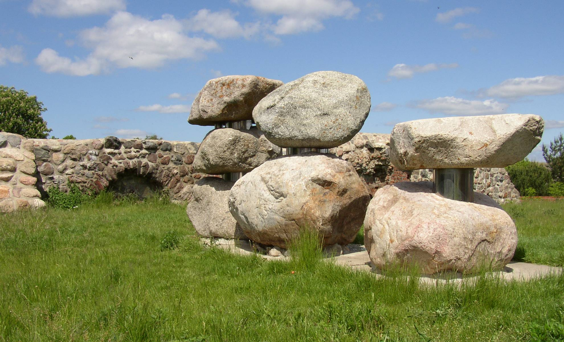 Castle ruin in Angermünde in Brandenburg, Germany